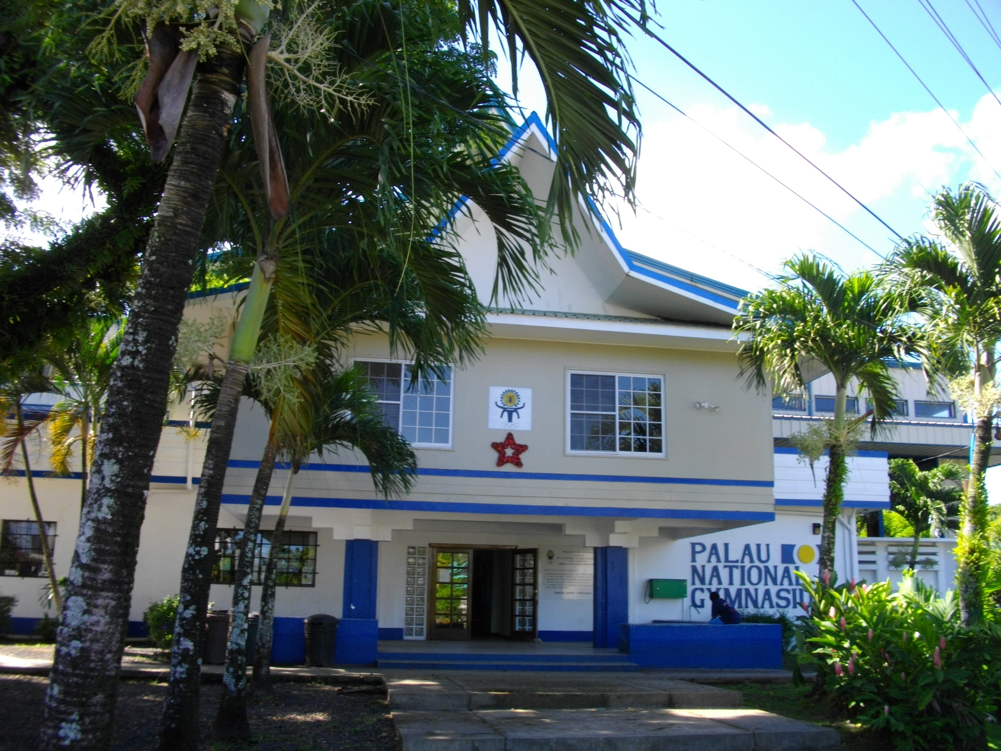 Palau National Gymnasium